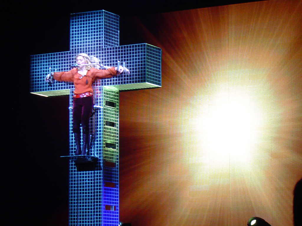 Madonna in her Confessions Tour, hanging from a mirrored cross.